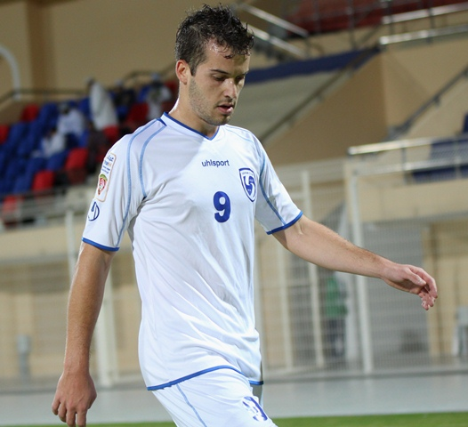 Vitor Huvos in a match against Al Nahda at Buraimi Sports Complex 17 February 2015 Buraimi Sports Complex, Al Buraimi Photographer email id